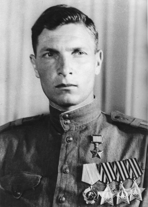 Pavel Khristoforovich Dubinda - one of the four Heroes of the Soviet Union and full holders of the Order of Glory.